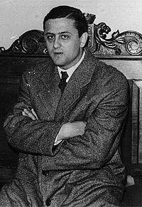 Spanish author Luis Martin-Santos (1924-1964)